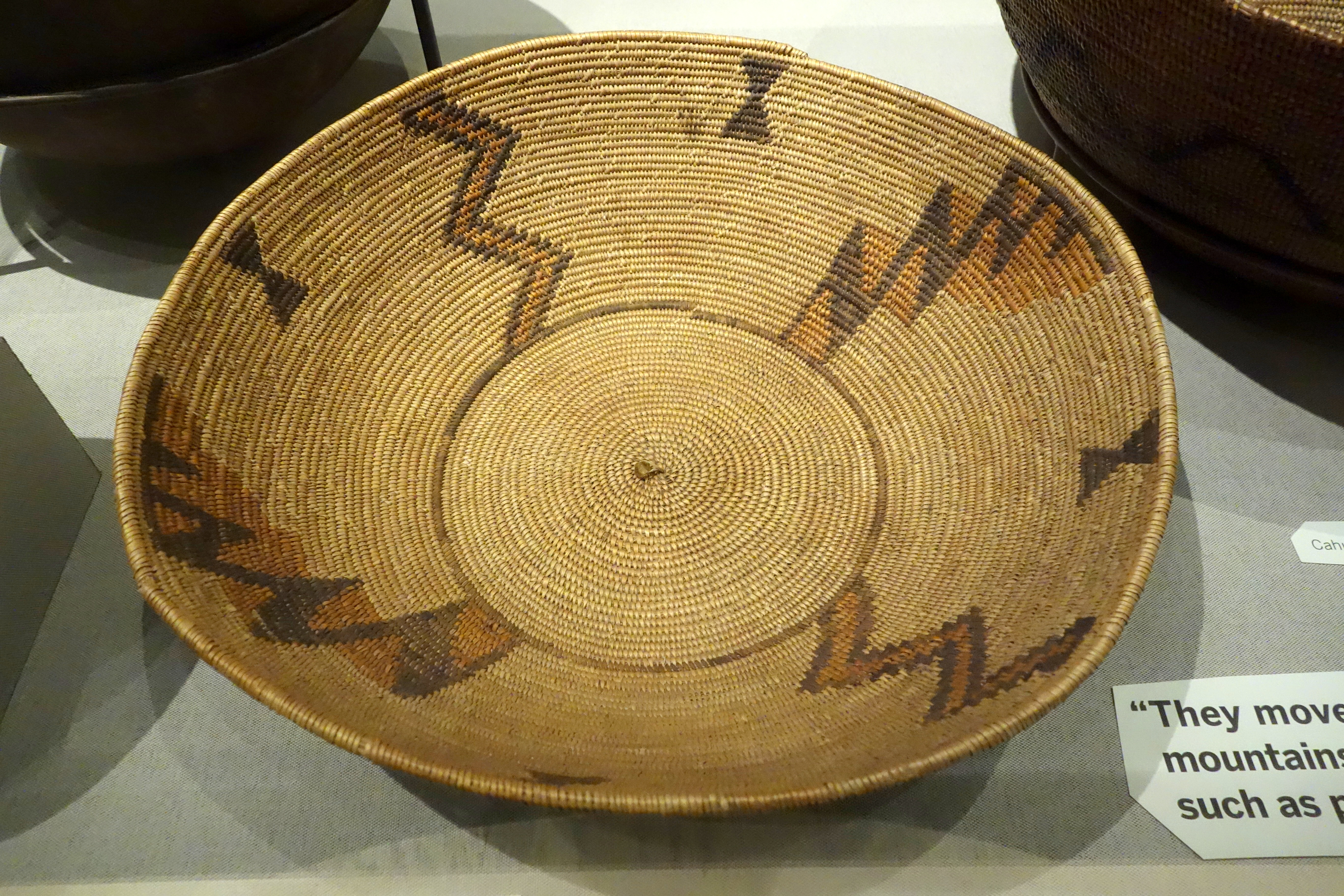 Exhibit in the Oakland Museum of California, Oakland, California, USA. This work is in the public domain because its maker died more than 70 years ago.